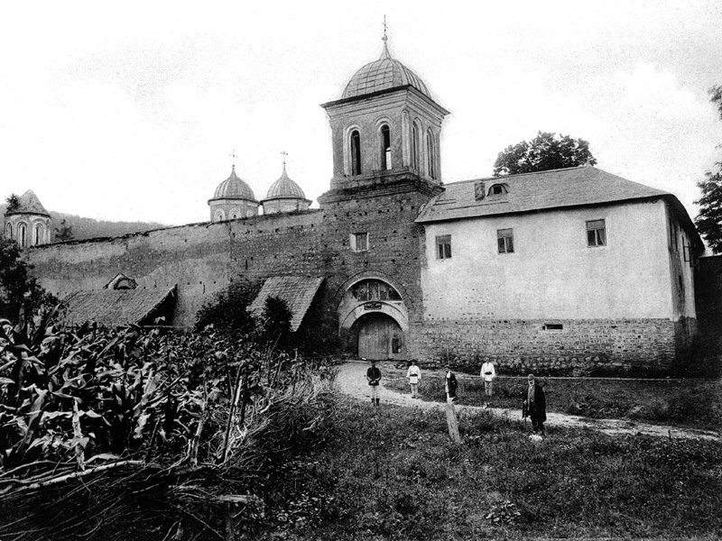 Aninoasa Monastery